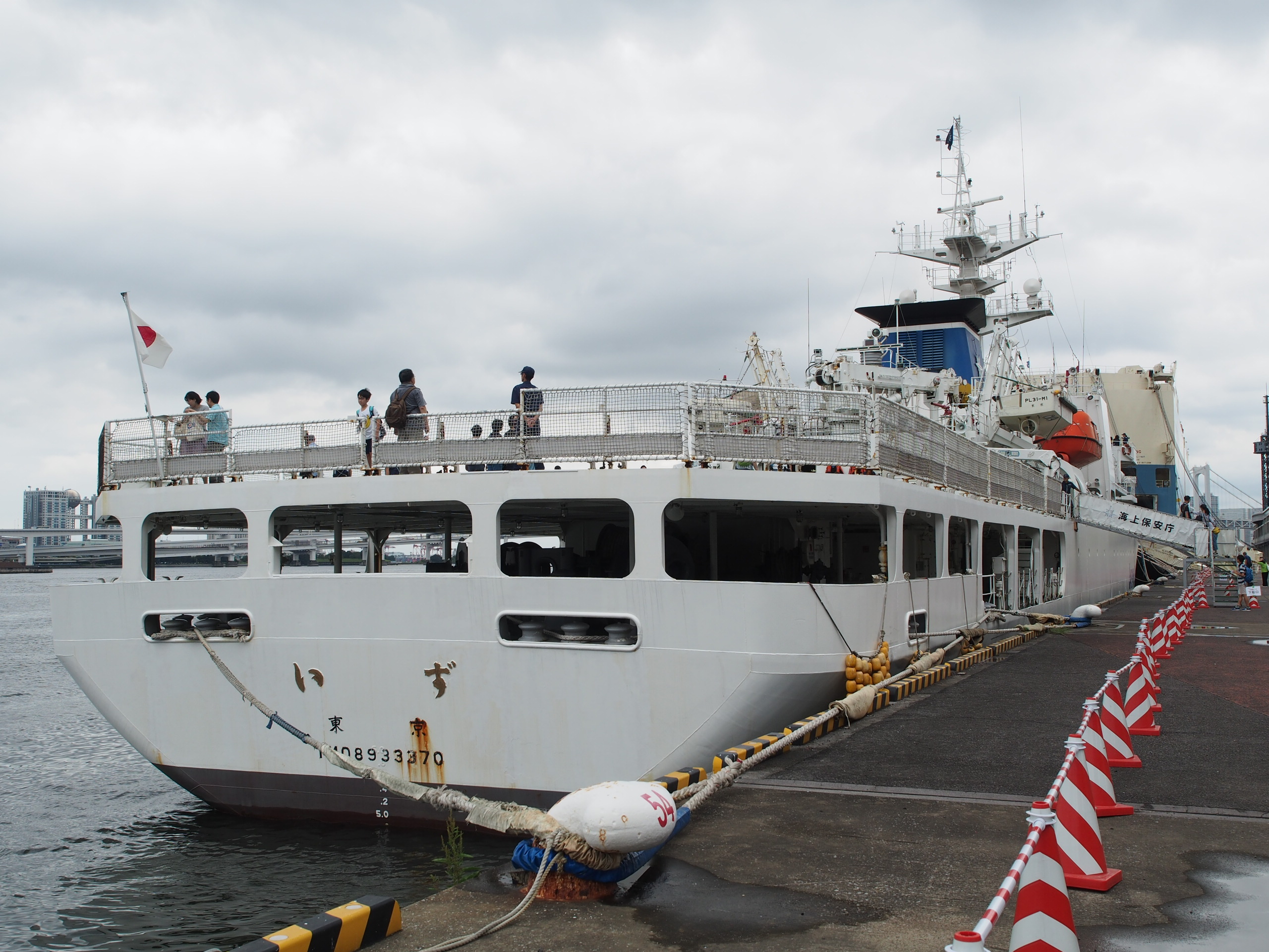 The stern of Japan Coast Guard Patrol Vessel PL31 Izu berthed at Harumi Pier, Tokyo, for the open house for Marine Day, on July 15, 2019.